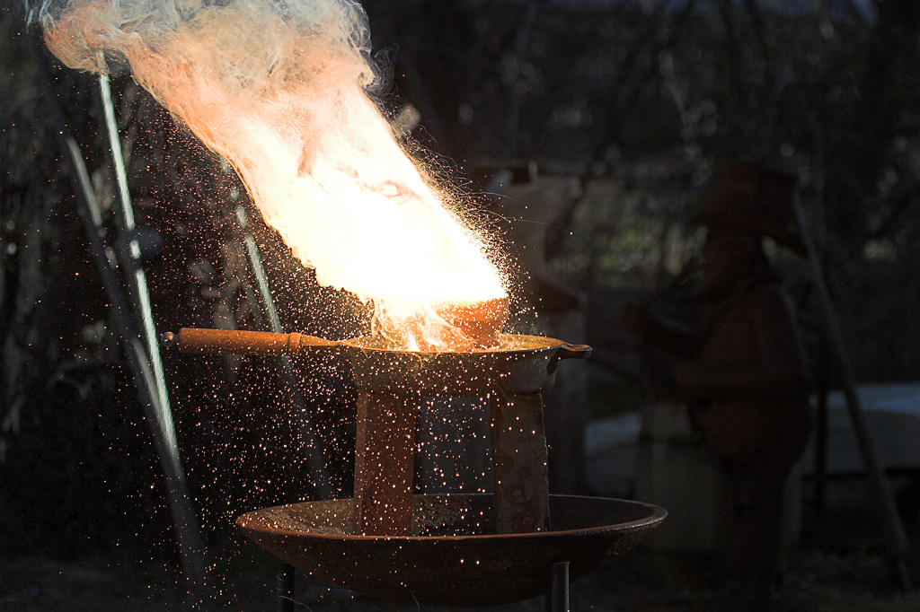 A thermite reaction, using about 110 g of the mixture, taking place. The cast-iron skillet was destroyed in the process.